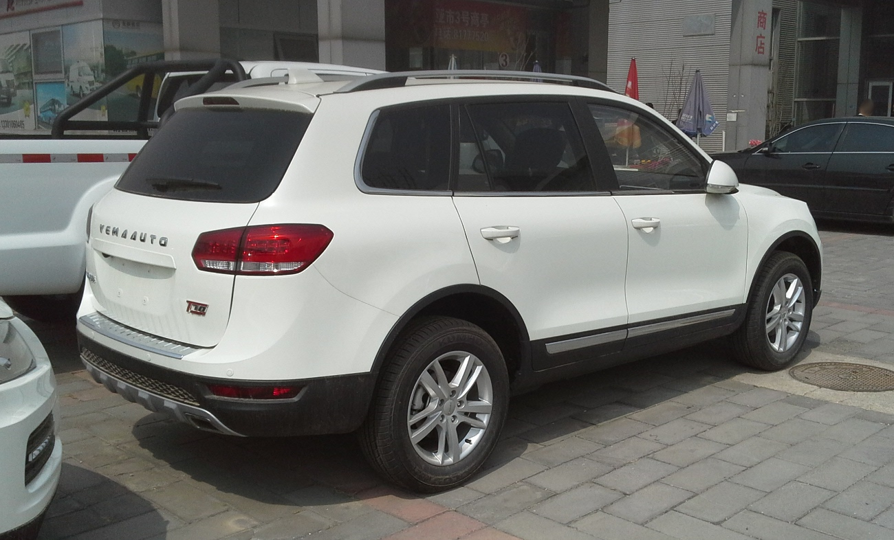 Yema T70 photographed in Beijing, China.